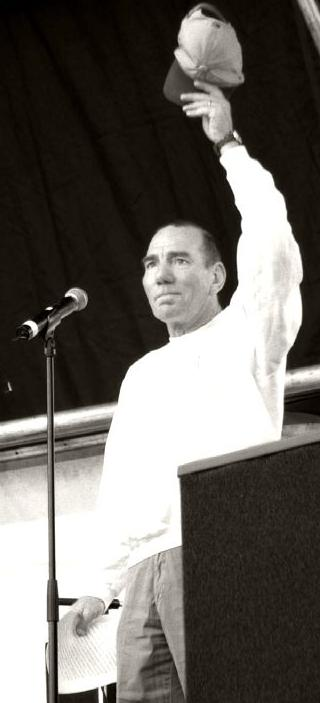 British actor Pete Postlethwaite, speaking at the Make Poverty History march in Edinburgh, opposing the G8 summit